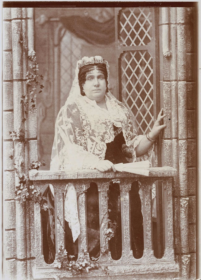 Photograph of Queen Isabella II of Spain while in exile in Paris.